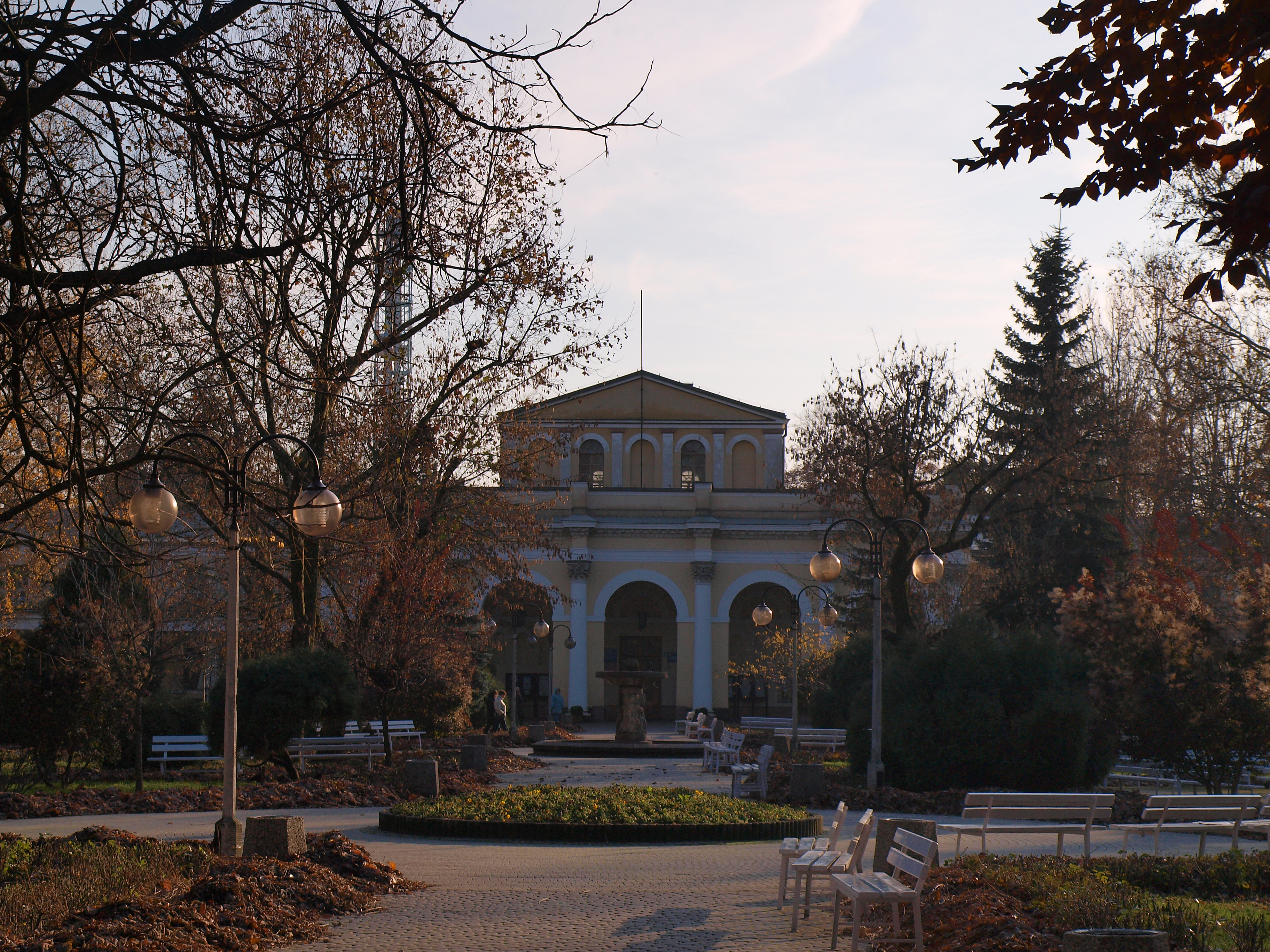 Busko-Zdrój - park and spa house Marconi